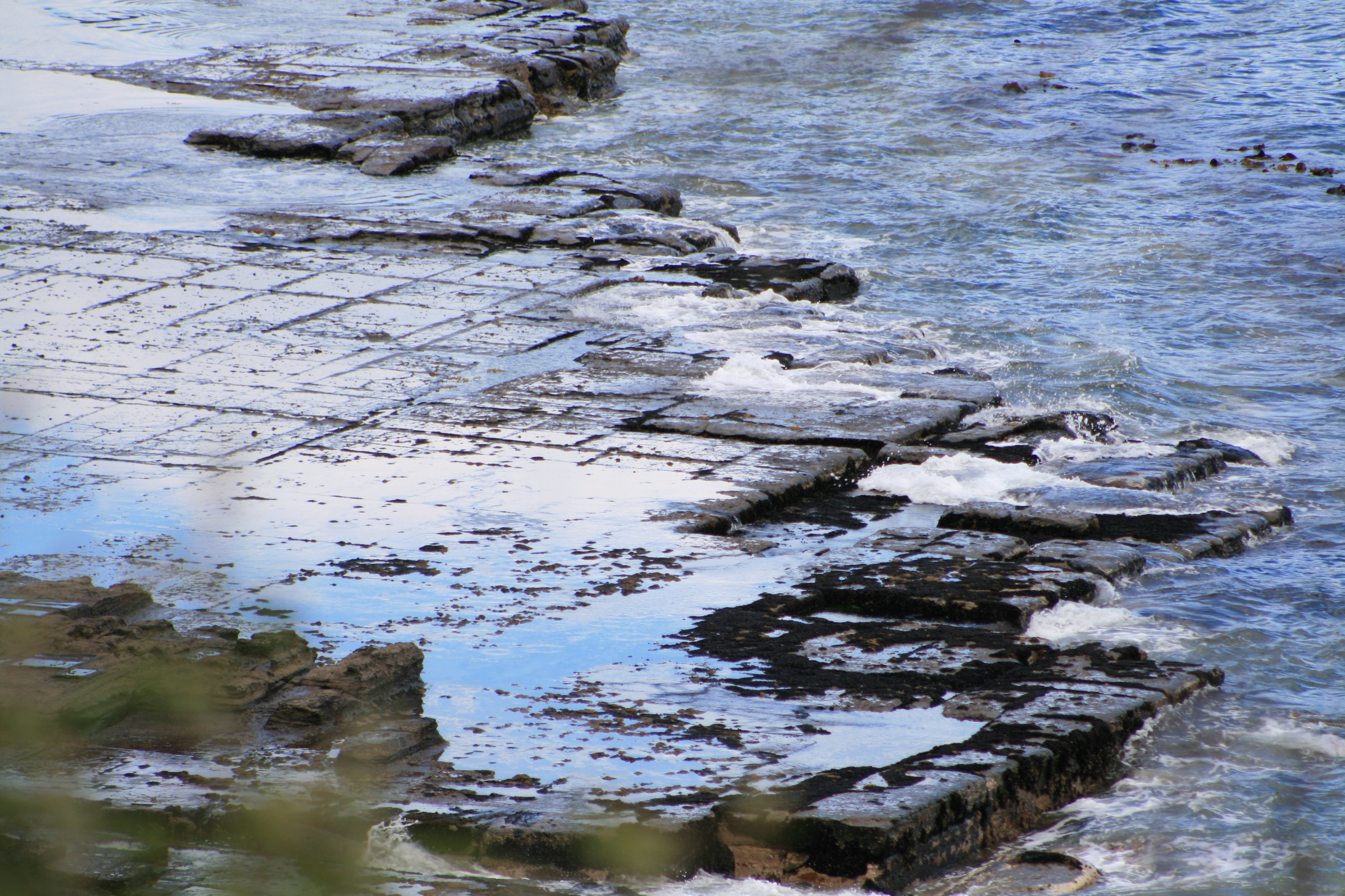 Tessellated Pavement, Tasman Peninsula, Tasmania, Australia